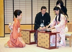 Bhutan royal visit Japan November 21, 2011